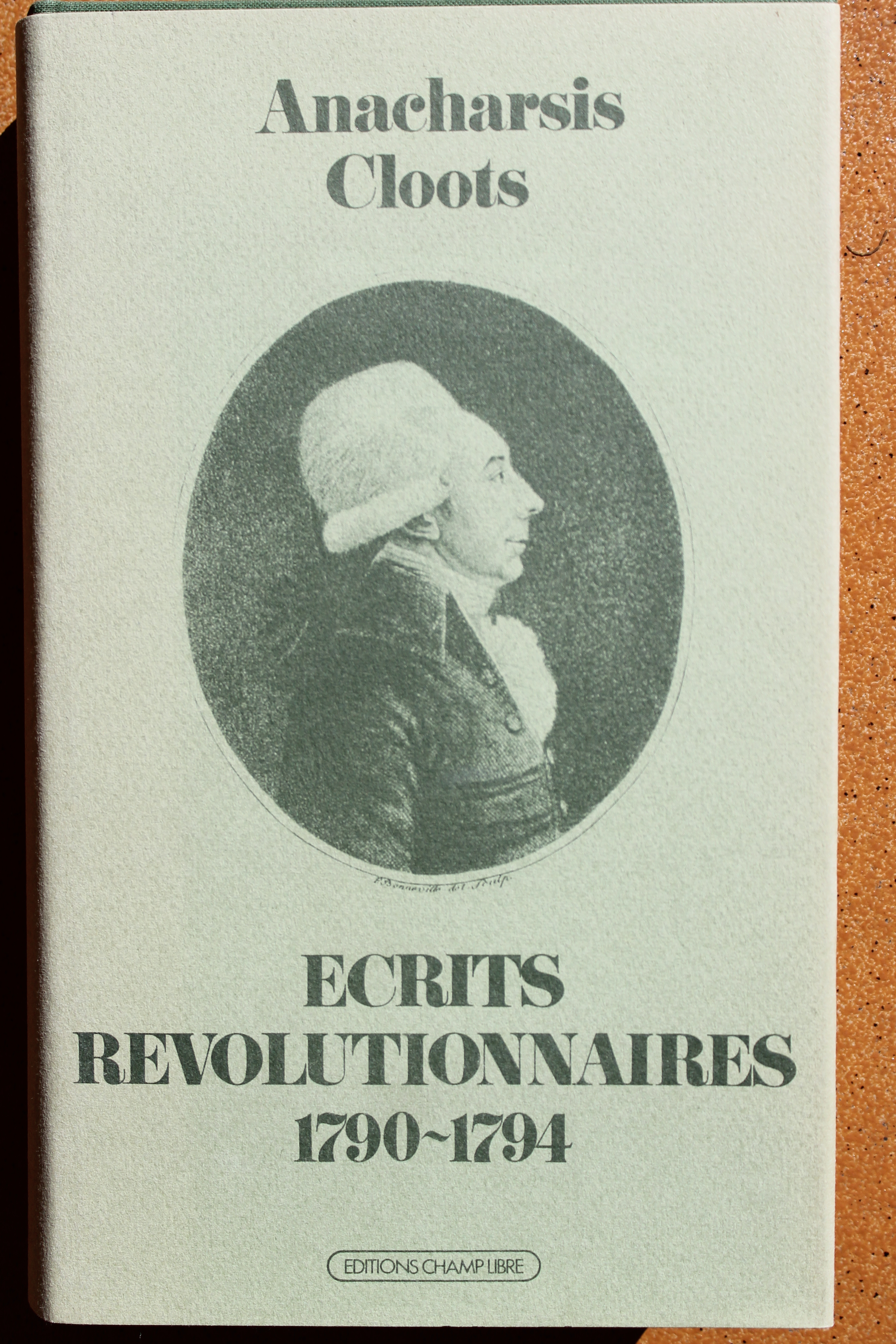 Anacharsis Cloots book